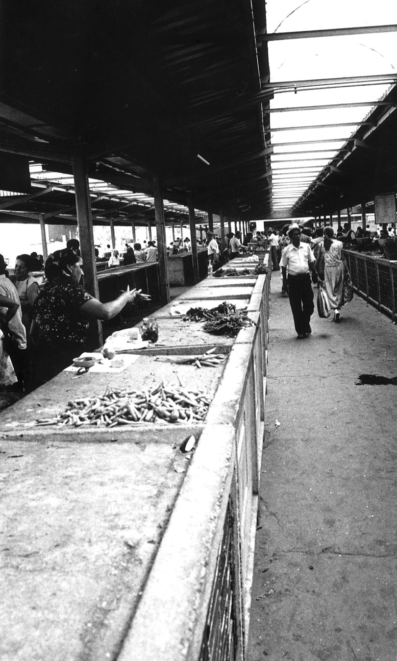 Food market in Bucharest, Ceausescu's time